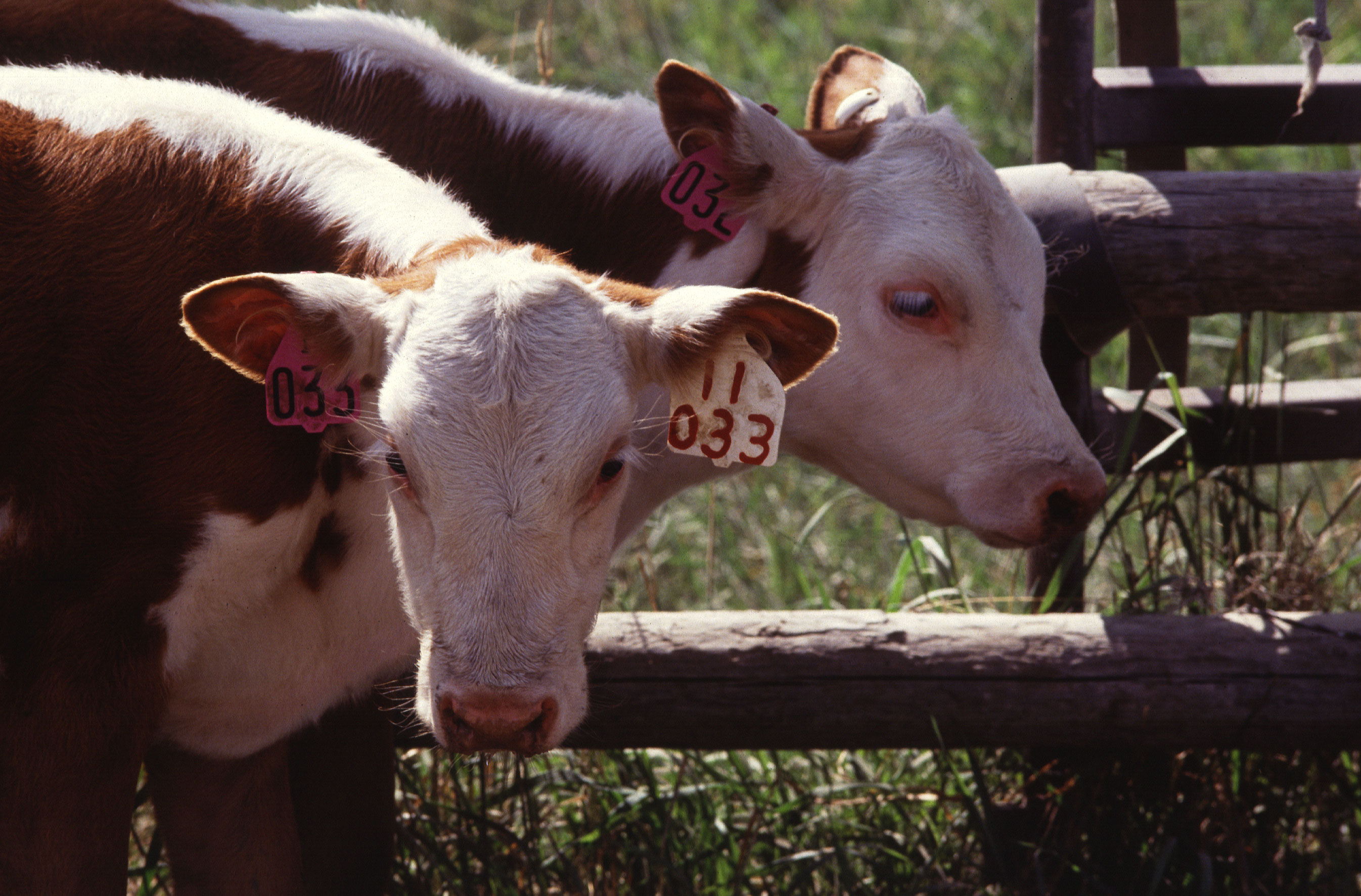 Hereford twins from Image Number K4323-18 Hereford twins produced at the ARS Range and Livestock Research Unit at Miles City, Montana. Photo by Jack Dykinga.